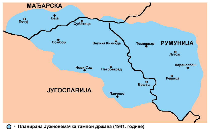 Planned South German Buffer State (1941).